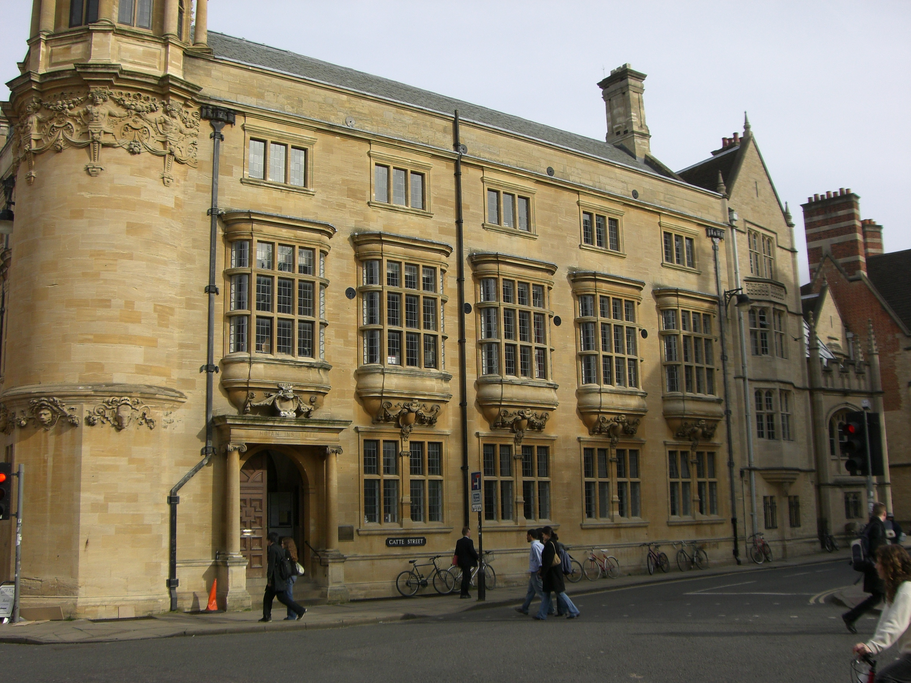 The Catte Street frontage of the Indian Institute, Oxford